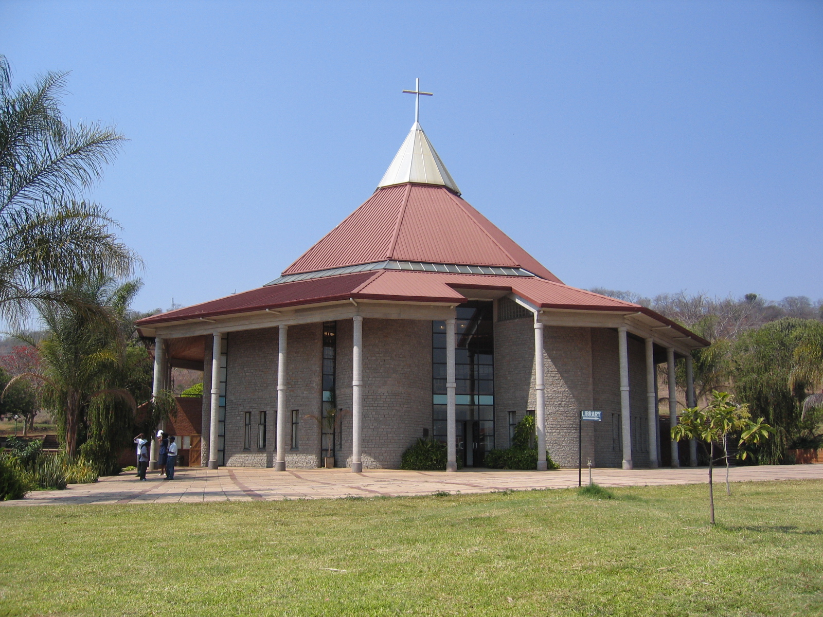 Africa University Main Chapel.